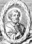 Jean Hardouin (SJ; 1646–1729), french Theologican und Philologist.